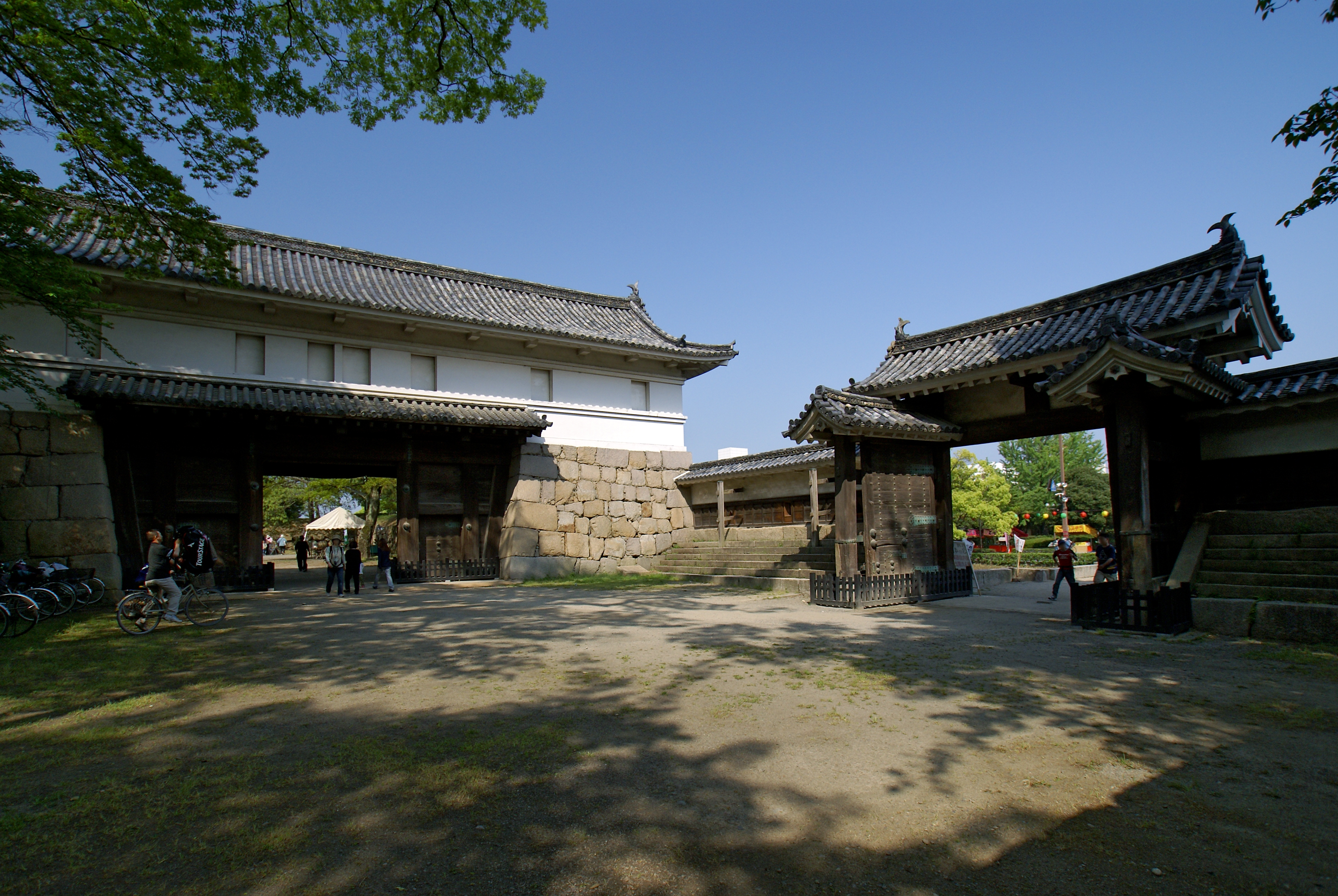 Marugame Castle in Marugame, Kagawa prefecture, Japan